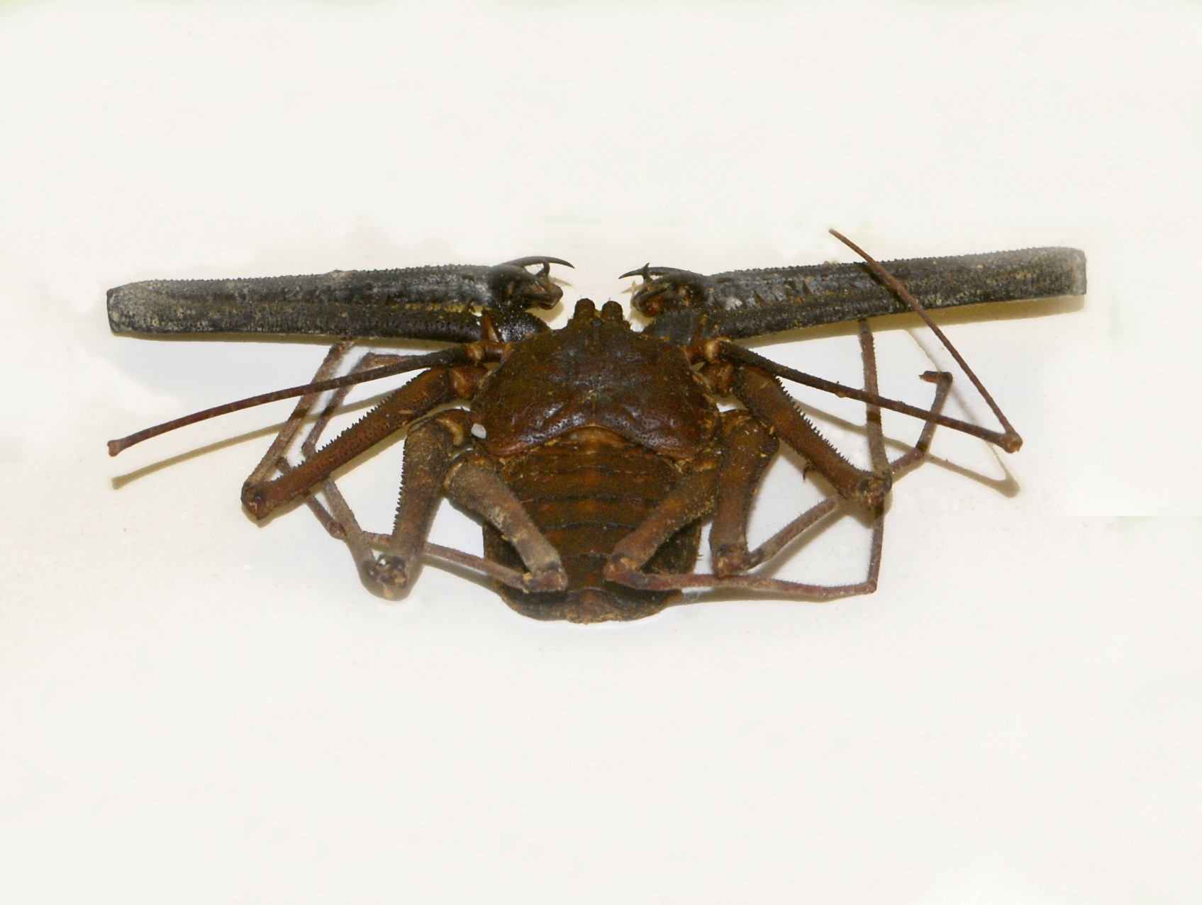 Damon medius from Guinea on display at the Museo Civico di Storia Naturale di Milano